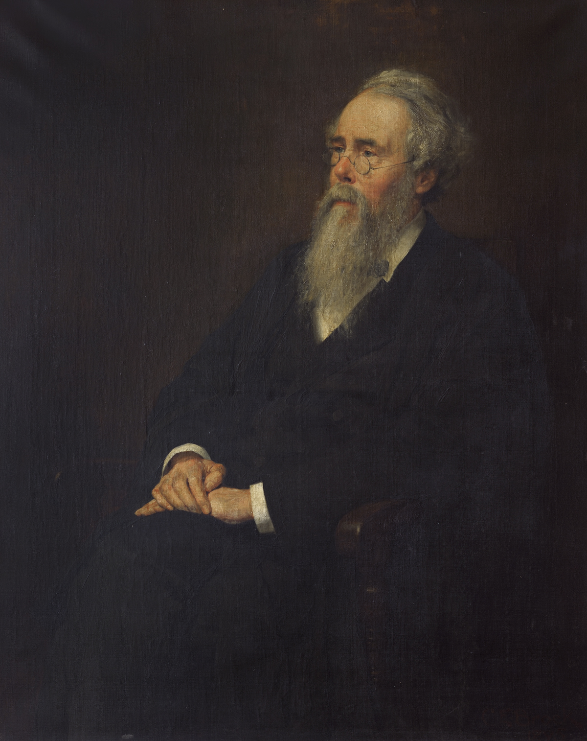 Edward Byles Cowell (1826–1903), Fellow (1874–1903), Professor of Sanskrit (1867–1903).